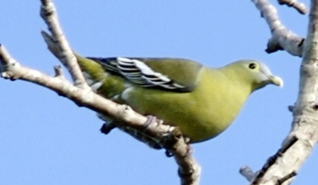 Grey-cheeked Green Pigeon Treron griseicauda wallacei Tangkoko, Sulawesi, Indonesia 11th. July 2006 Gray cheeked Green Pigeon, Gray-cheeked Green Pigeon, Gray-cheeked Green-Pigeon, Gray-cheeked Pigeon, Gray-faced Green Pigeon, Gray-faced Green-Pigeon, Gray-faced Thick-billed Green Pigeon, Grey cheeked Green Pigeon, Grey-cheeked Green Pigeon, Grey-cheeked Green-Pigeon, Grey-cheeked Pigeon, Grey-faced Green Pigeon, Grey-faced Green-Pigeon, Grey-faced Thick-billed Green Pigeon Indonesian: Futègo, Punai manten, Putéa idju A flock in a mangrove swamp - Distribution according to Bird Studies Canada/ Avibase: Treron griseicauda wallacei Q0S0215.jpg